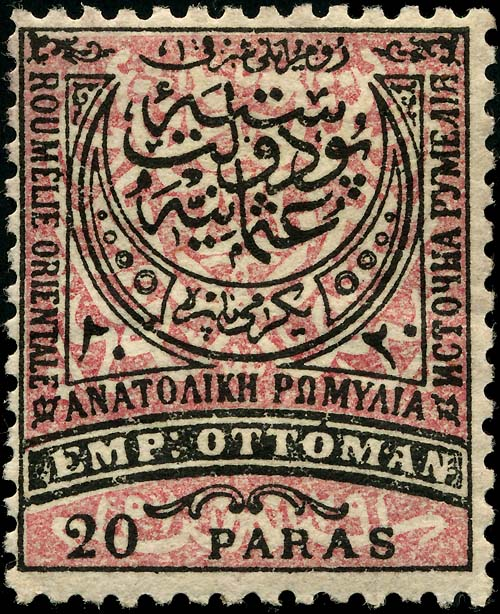 Eastern Rumelia 20-para stamp of 1881